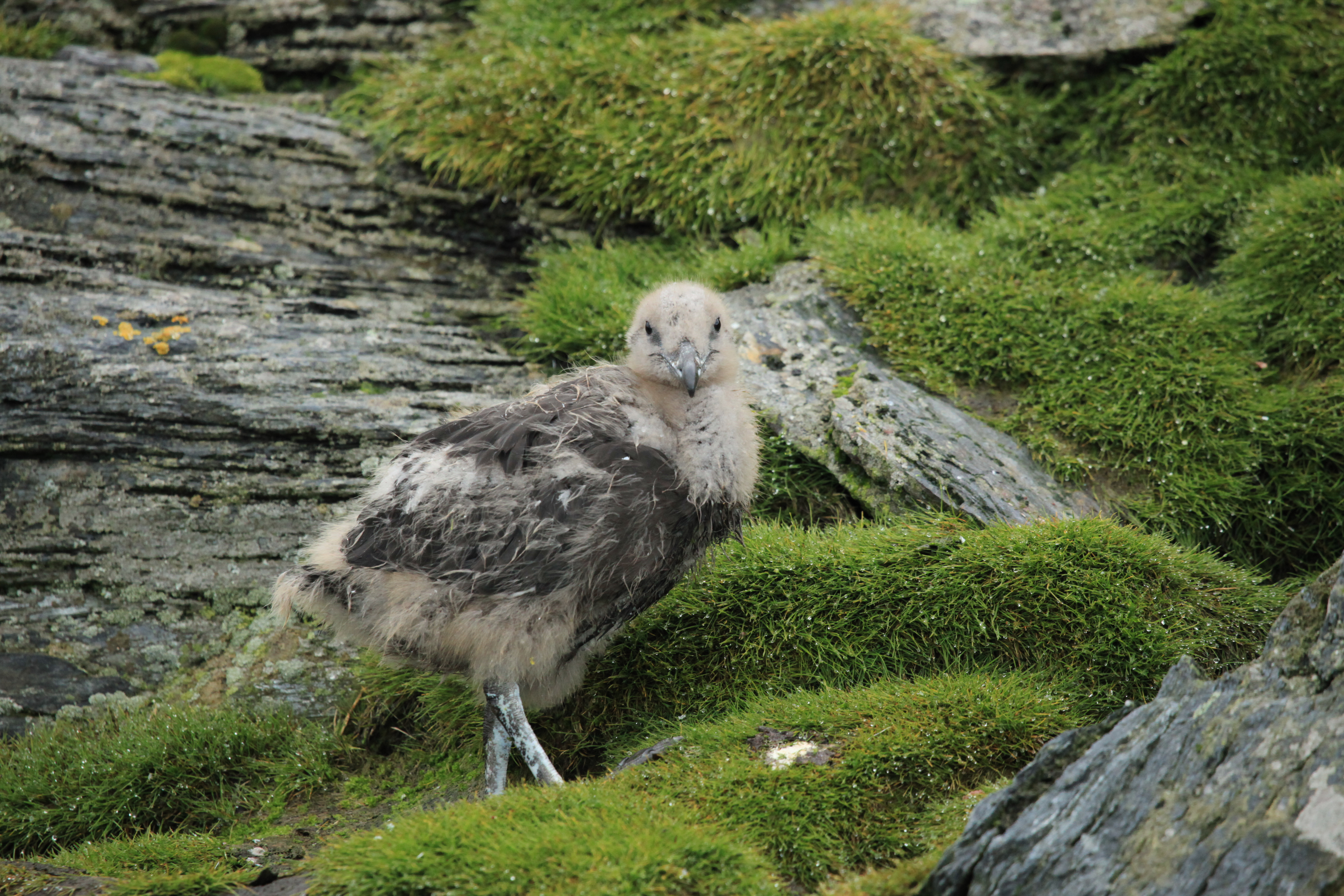 A Brown Skua chick in Shingle Cove, Coronation Island, South Orkneys, British Antarctic Territory.